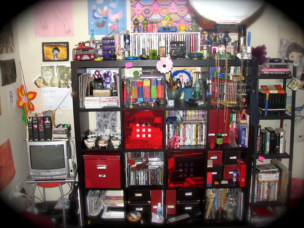 March 7,2009